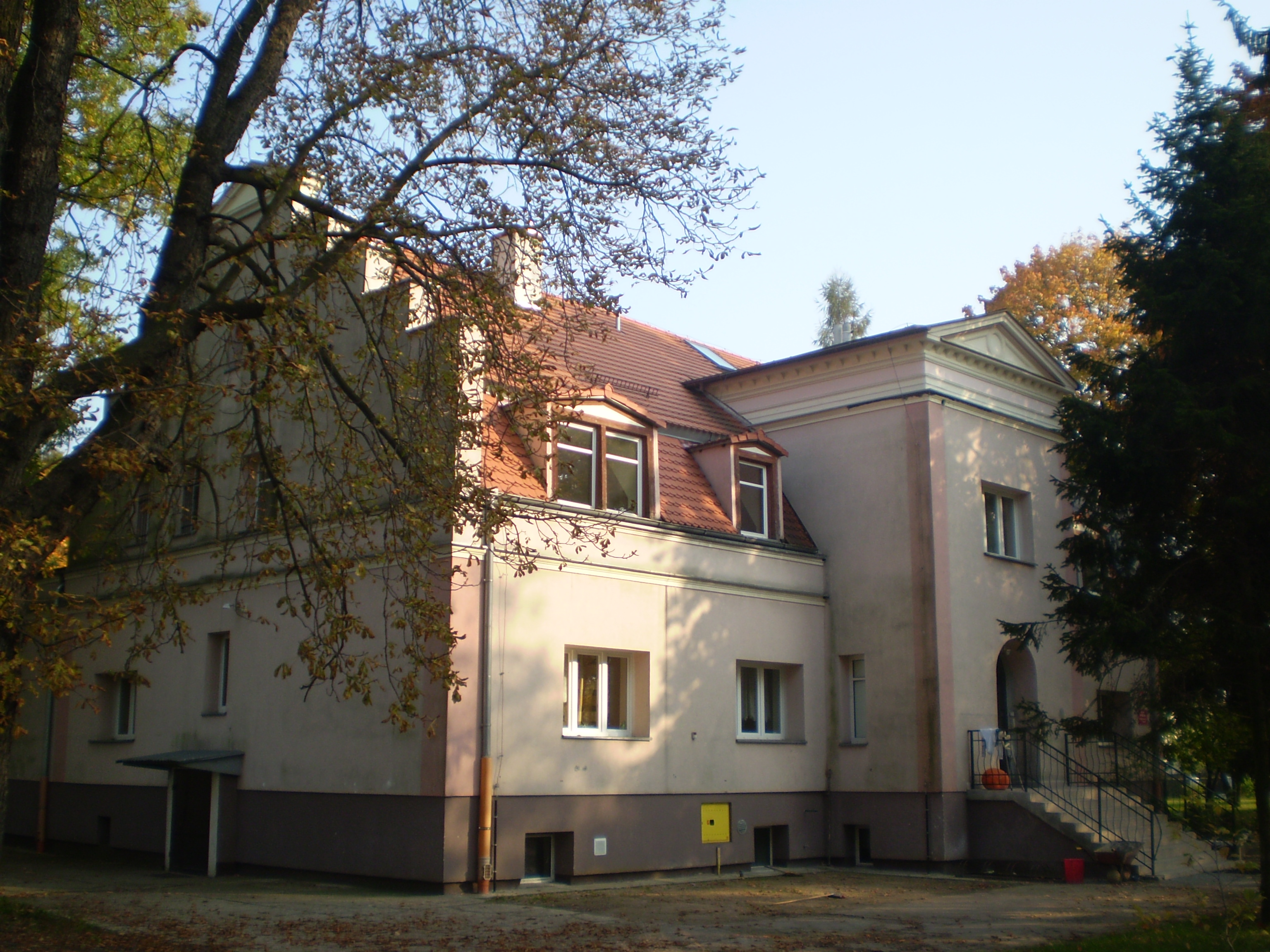 Park and manor house in Opole Chmielowice